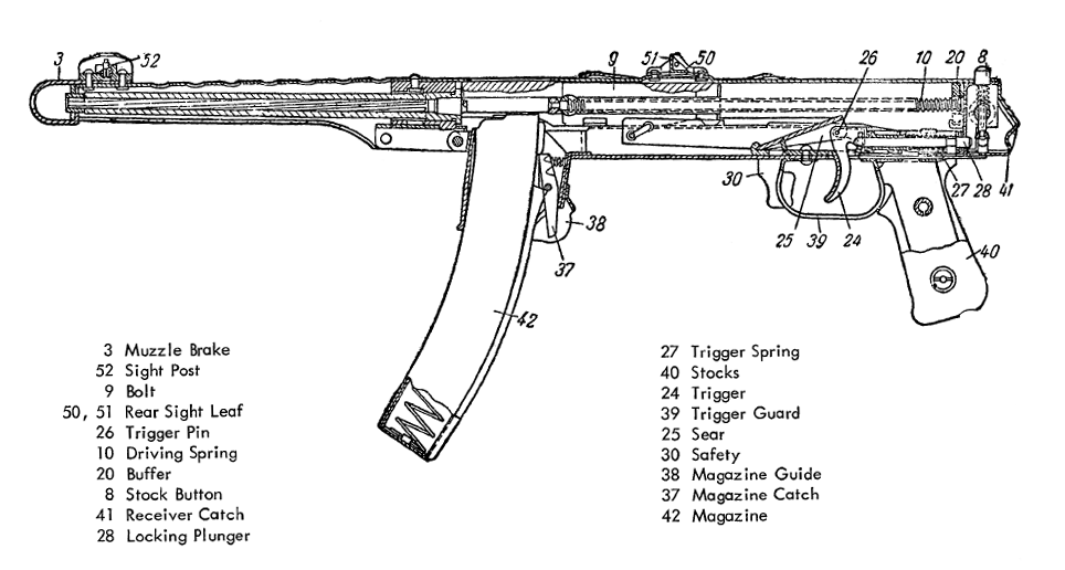 section figure of a PPS-43 sub-machine gun